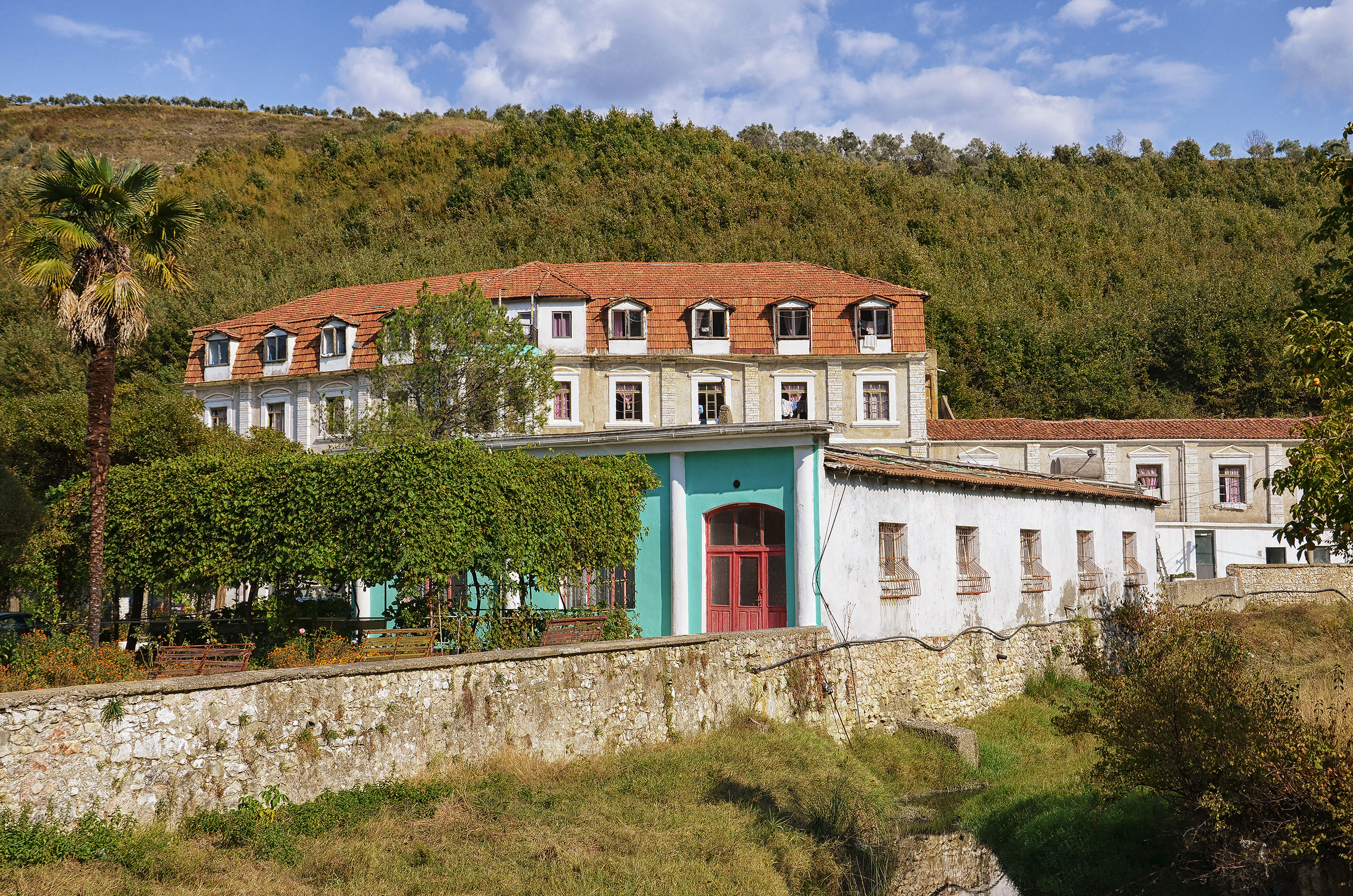 The Park Nosi hotel in Llixhat e Elbasanit, Tregan, Albania